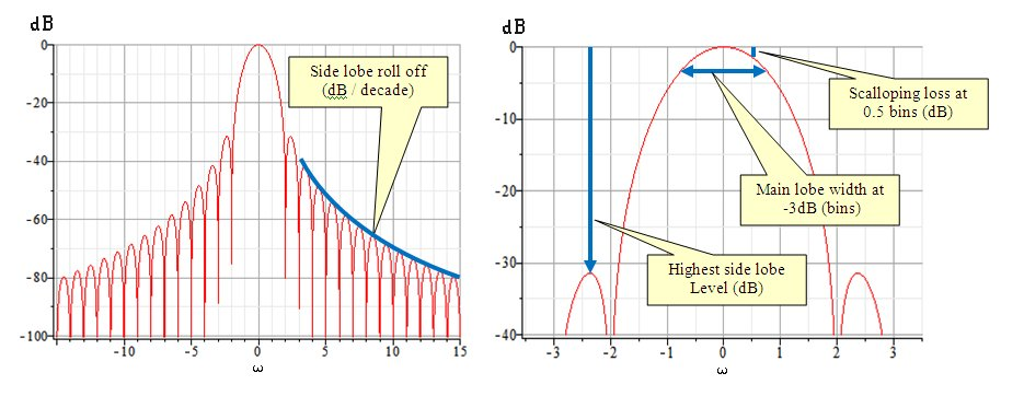 Diagram with the criteria about the performance of signal windows (Hanning)